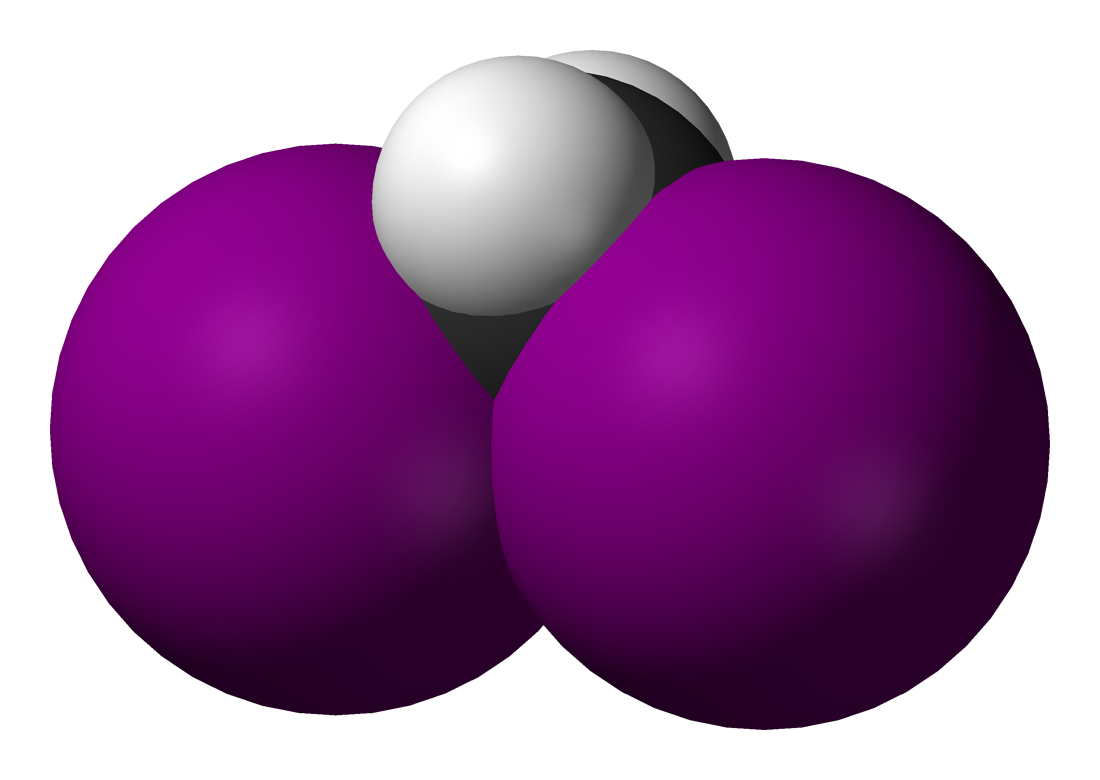 Space-filling model of the diiodomethane molecule, CH2I2